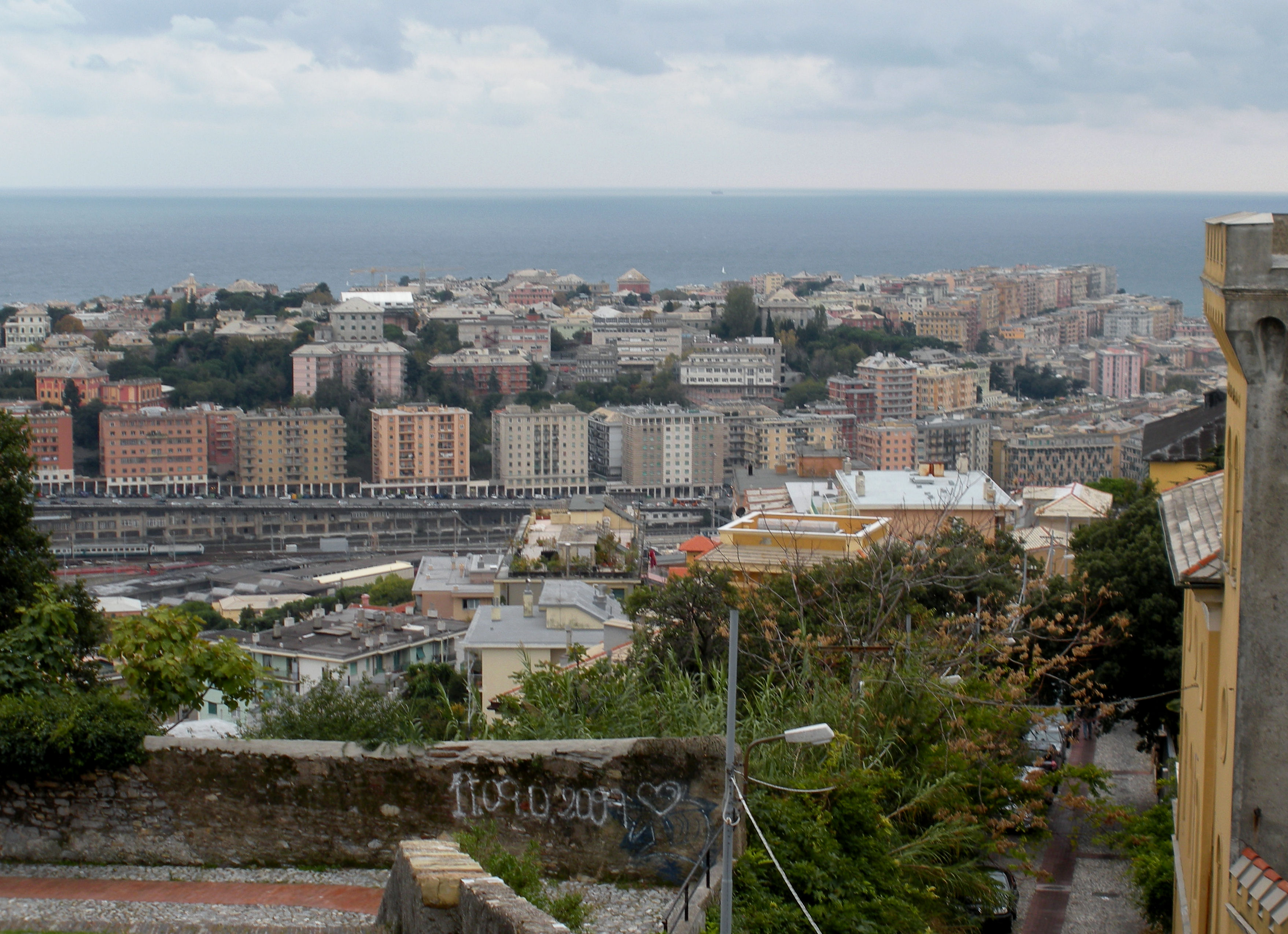 Genoa, Italy, view of the quarter of Albaro